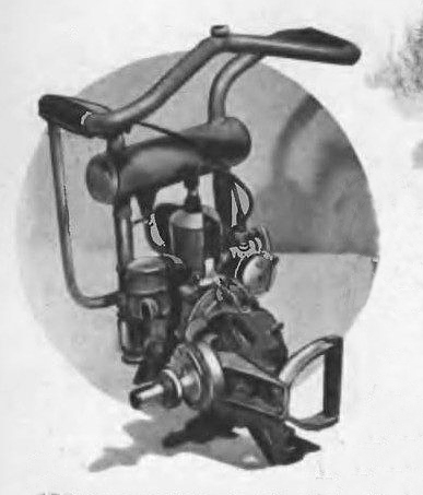 Сhainsaw "Drushba" from Soviet union. First version 1955